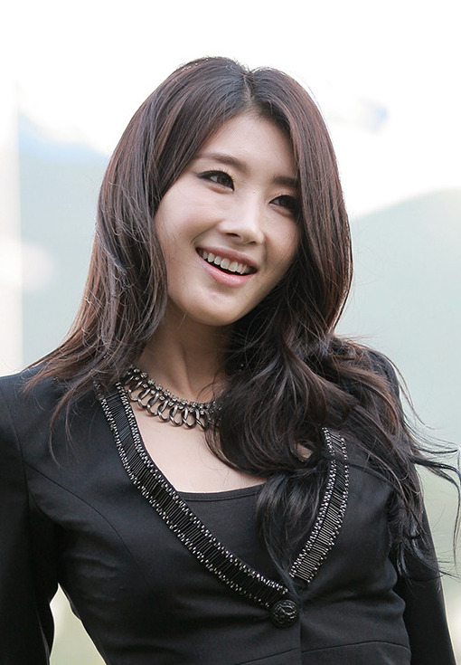 Nine Muses at Gwacheon Seoul Race Park live concert